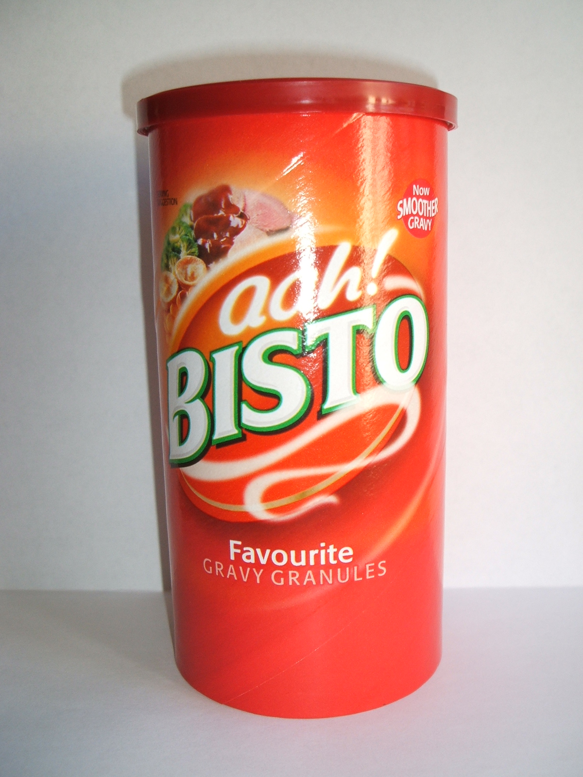 Bisto tin